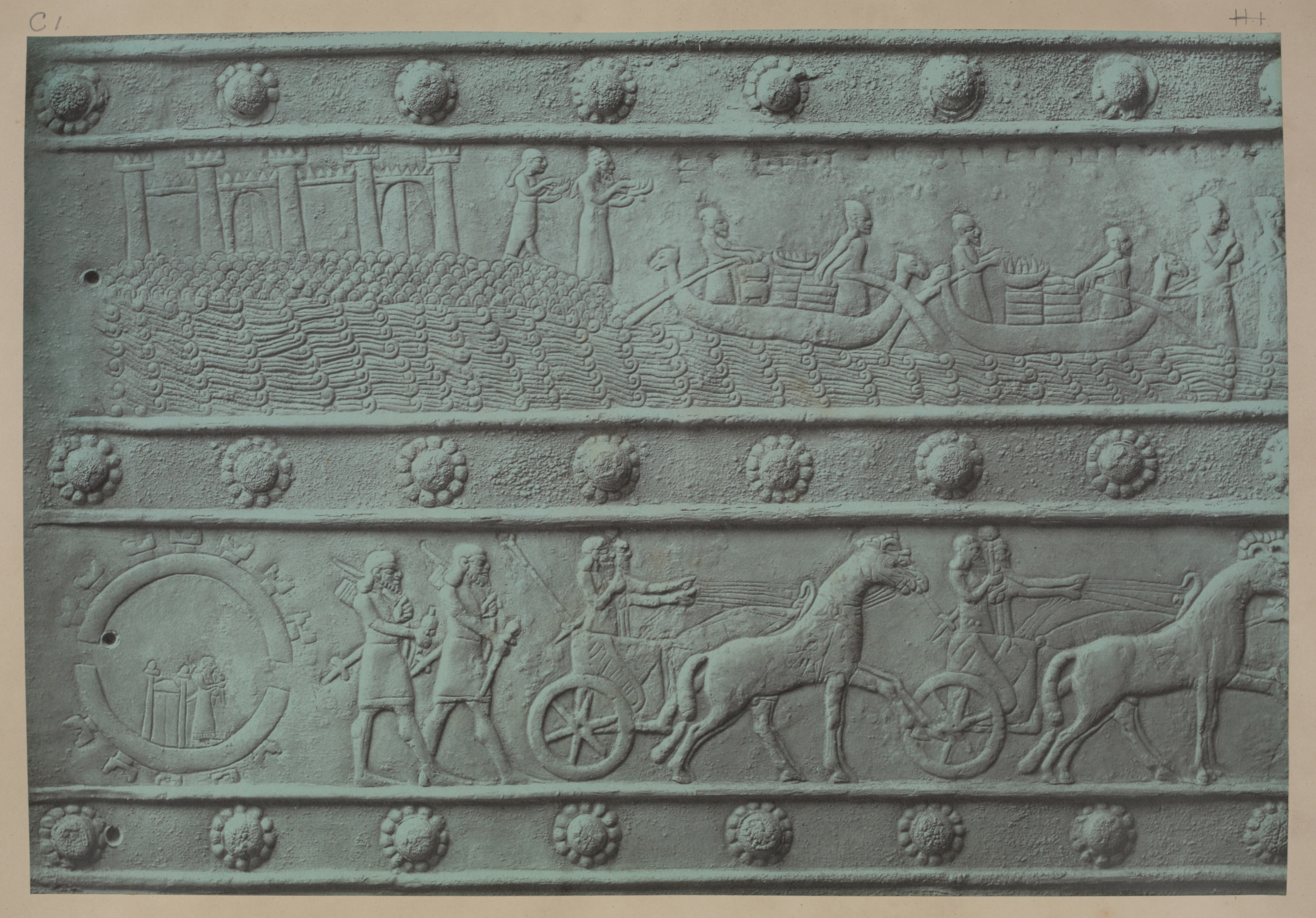 From "The bronze ornaments of the palace gates of Balawat (Shalmaneser II, B.C. 859-825)"